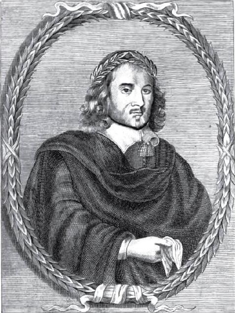 Thomas Middleton, from Two New Playes 1657